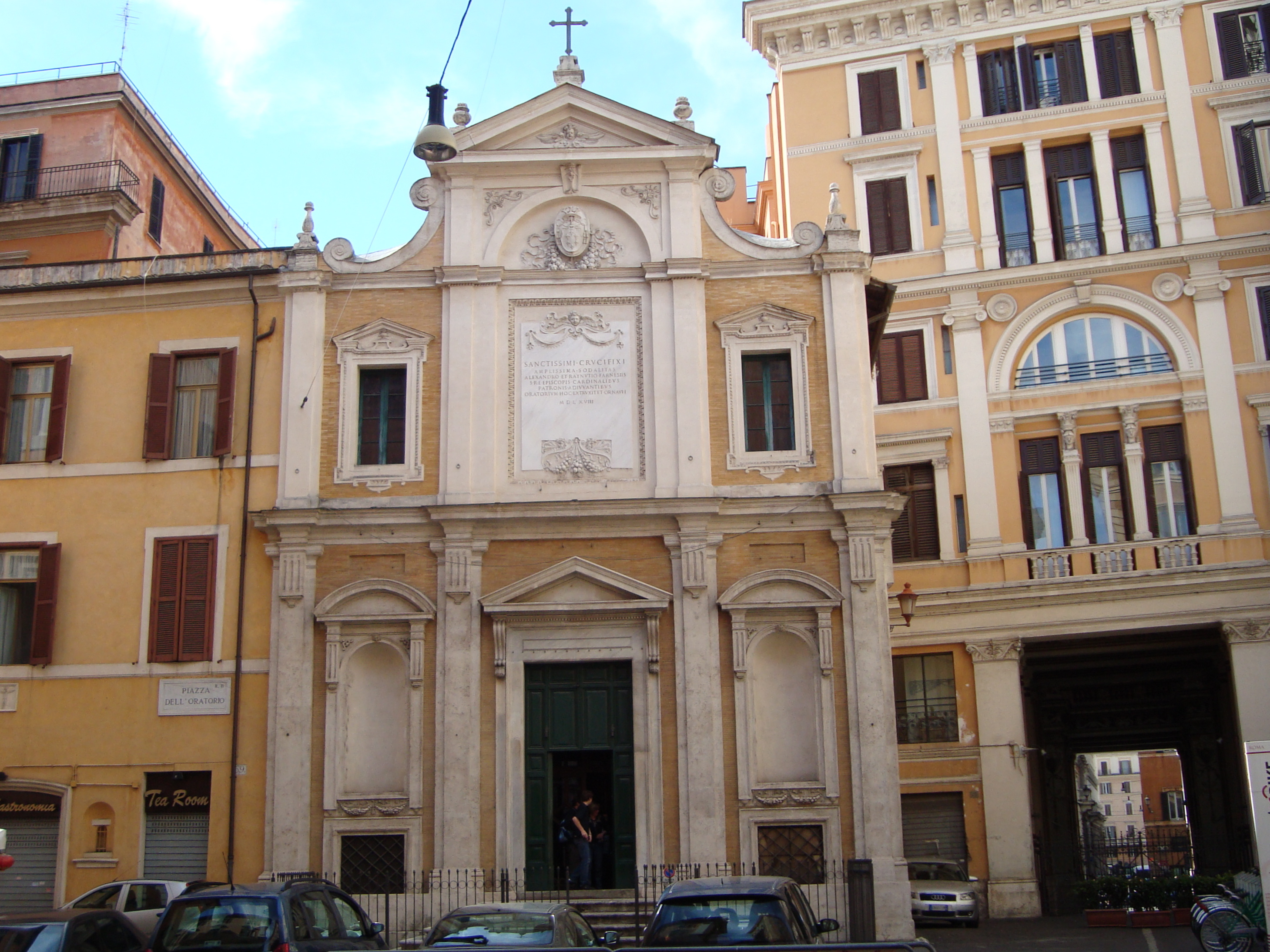 Oratorio del Crucifisso in Rome